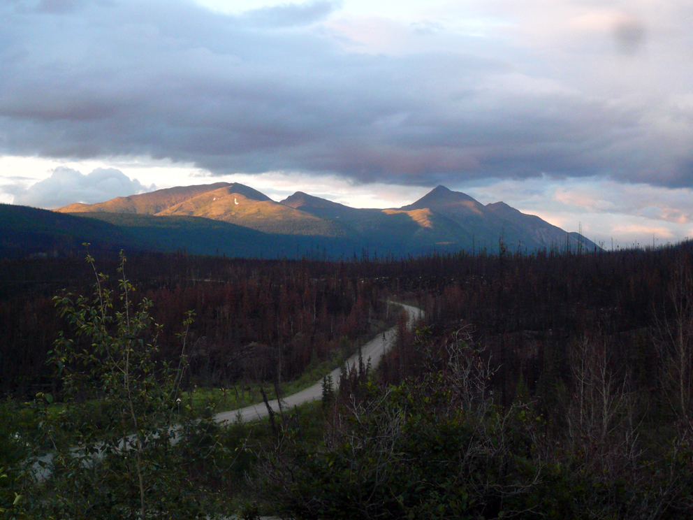 Nahanni Range Road near Tuchitua, heading eastwards